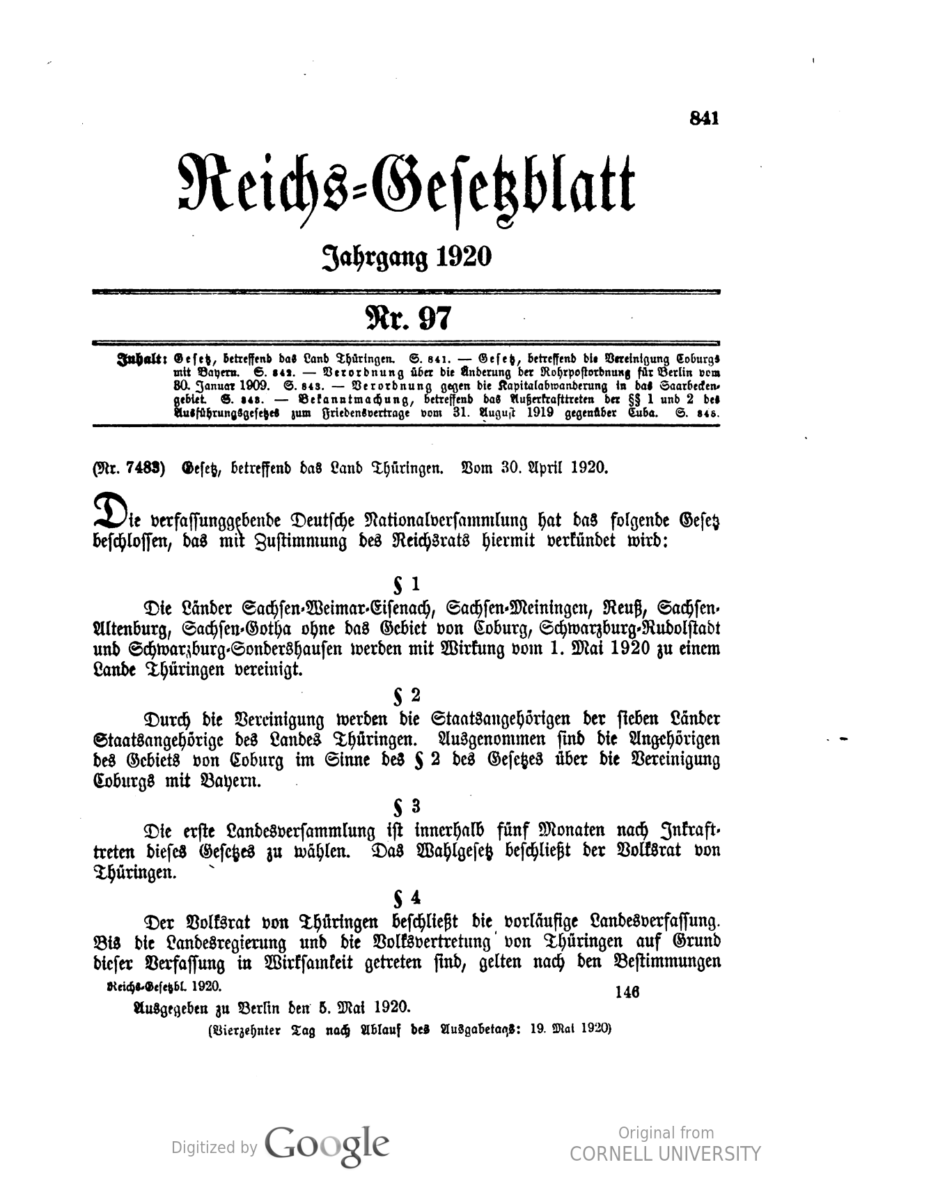 Scan from the Imperial Law Gazette of Germany, 1920